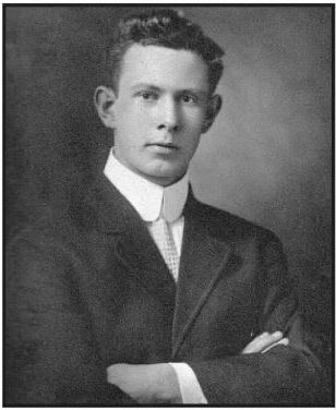 William Moulton Marston before 1916.